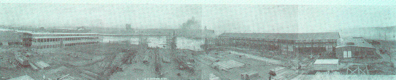 Plant of J. F. Duthie & Co., Seattle : Engineers, Shipbuilders, Boiler Makers Subject: J. F. Duthie and Company (Seattle, Washington), Shipbuilding--Washington (State)--Seattle Geographic Subject: United States--Washington (State)--Seattle Tag: Vessels